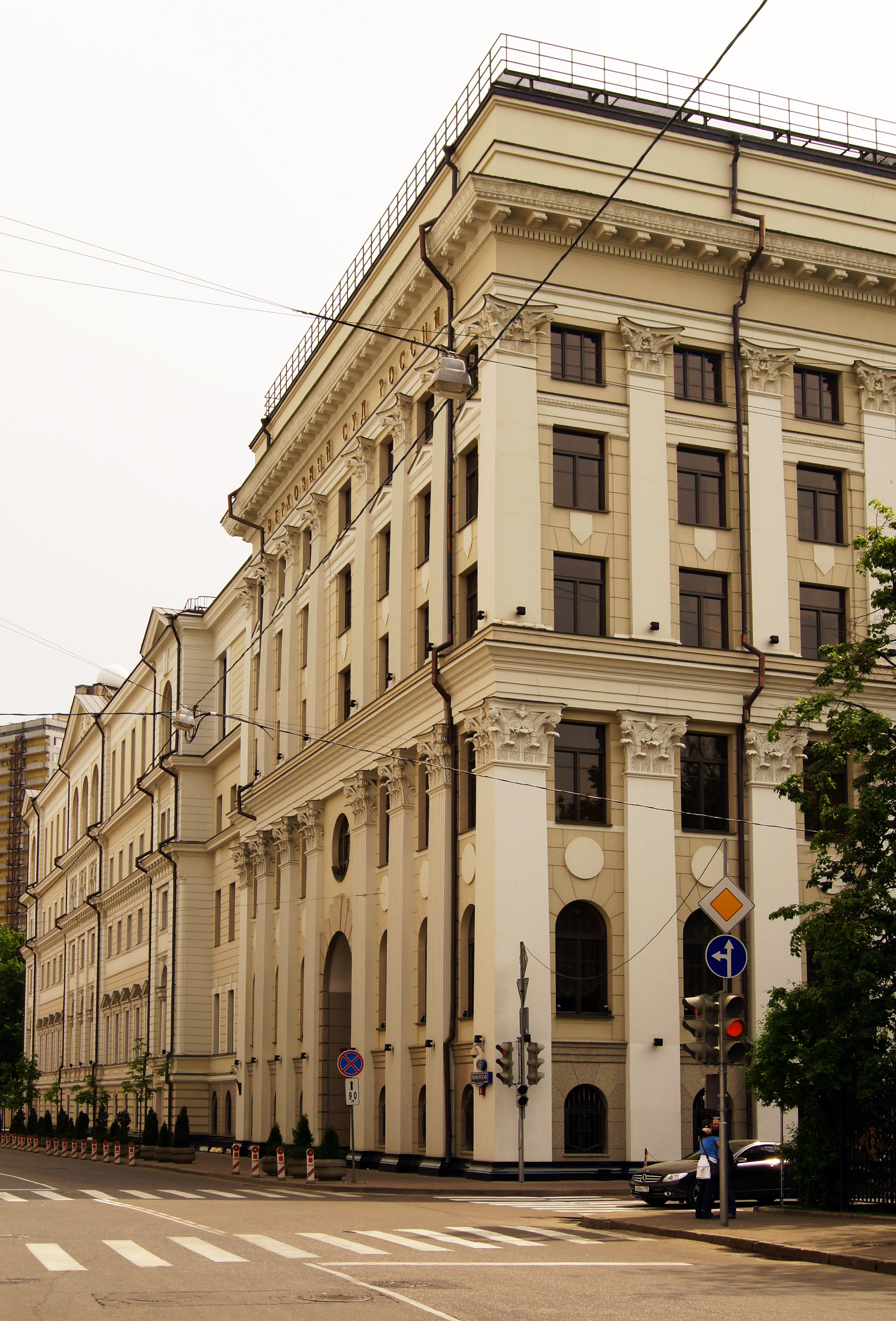 Supreme Court of the Russian Federation (Povarskaya street, 13-15)